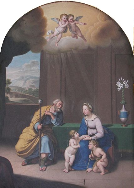 The Holy Family